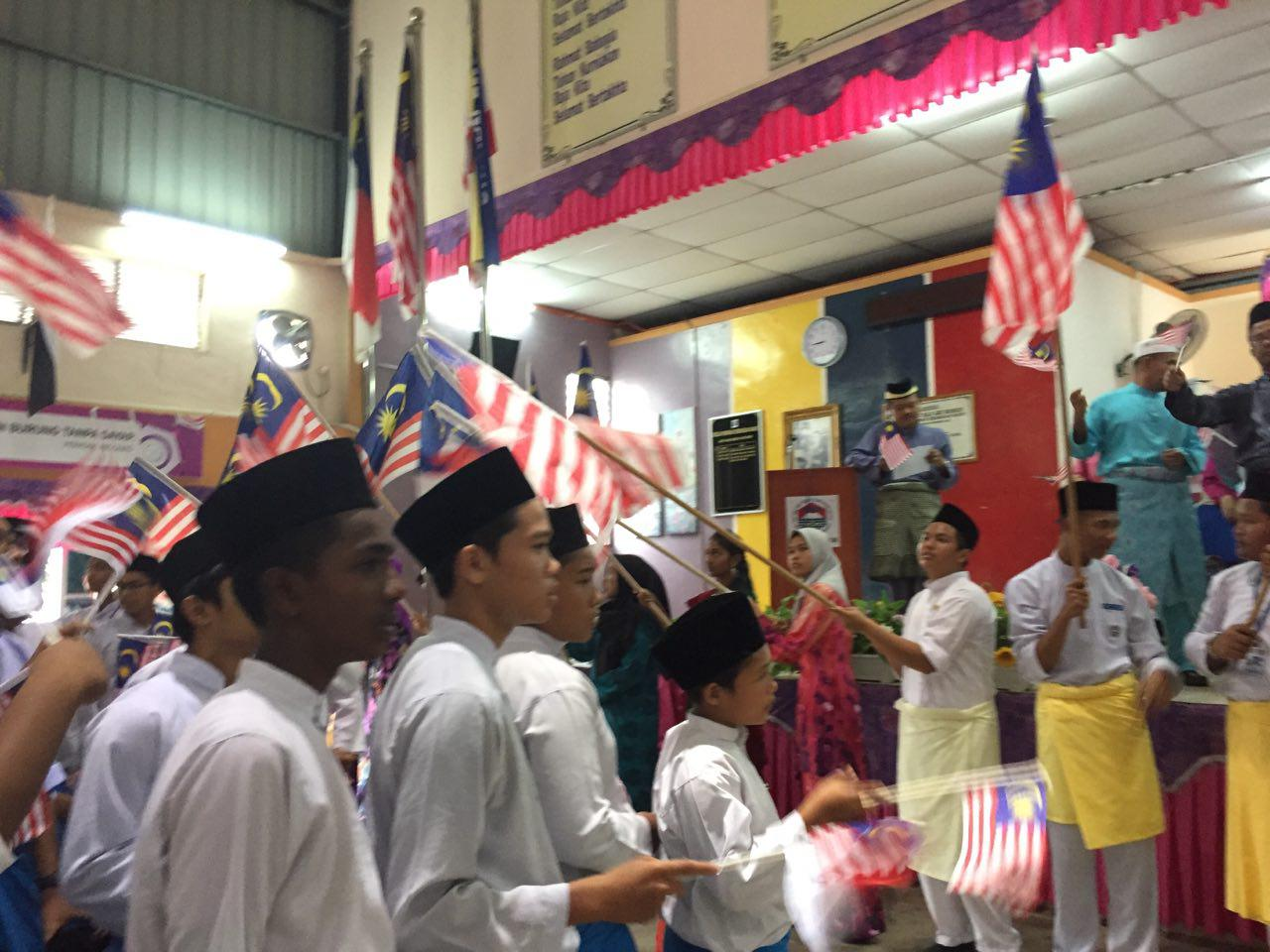 Pelancaran Merdeka 2